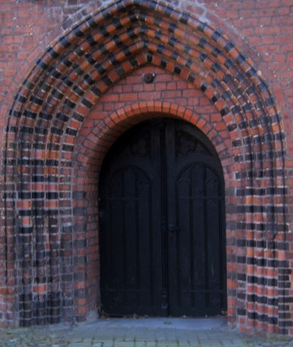 The portal of chapel of StMary's church in Gryfice (Poland)